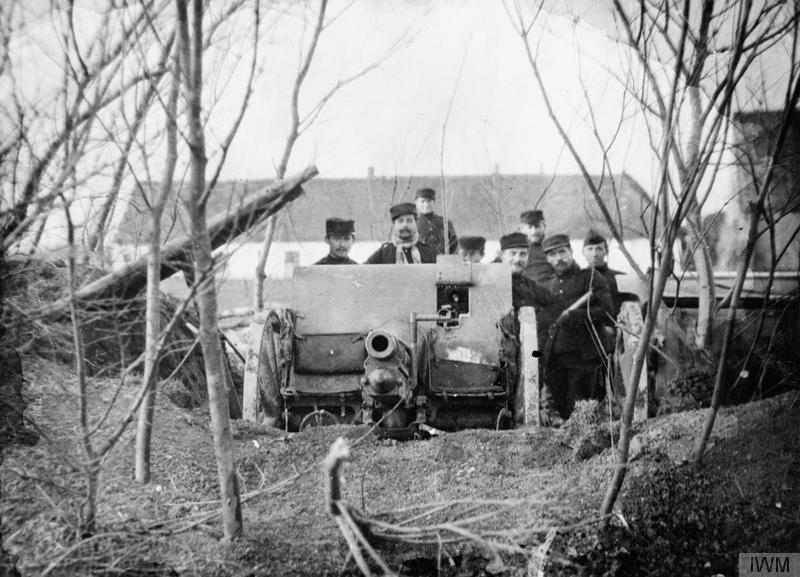 The Belgian Army, 1914 A Belgian field gun and crew in position in 1914.